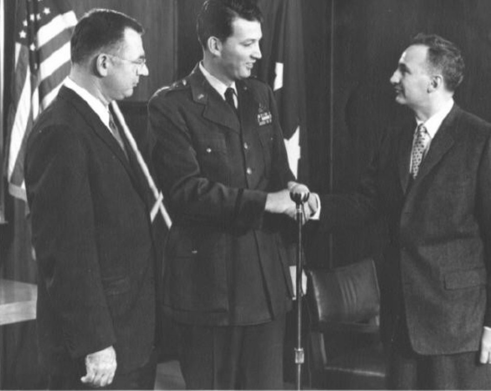 The three people most directly responsible for the success of the early Atlas program: Trevor Gardner (Assistant Secretary of the Air Force for Research and Development), then-Maj Gen Bernard A. Schriever (commander of the Western Development Division), and Dr. Simon Ramo (CEO of the Ramo-Wooldridge Corporation). (USAF photo)